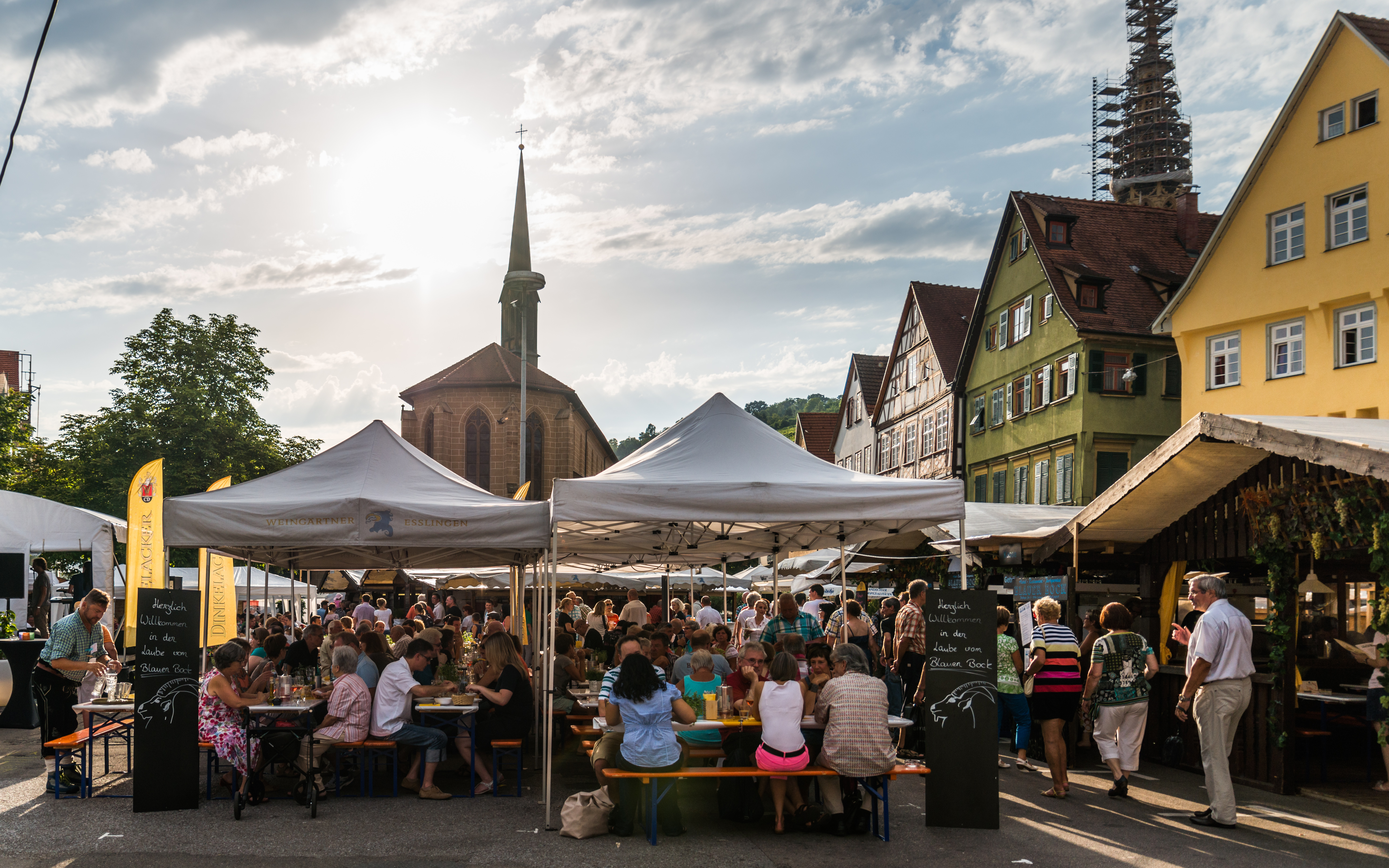 Impressions of the Esslinger Zwiebelfest